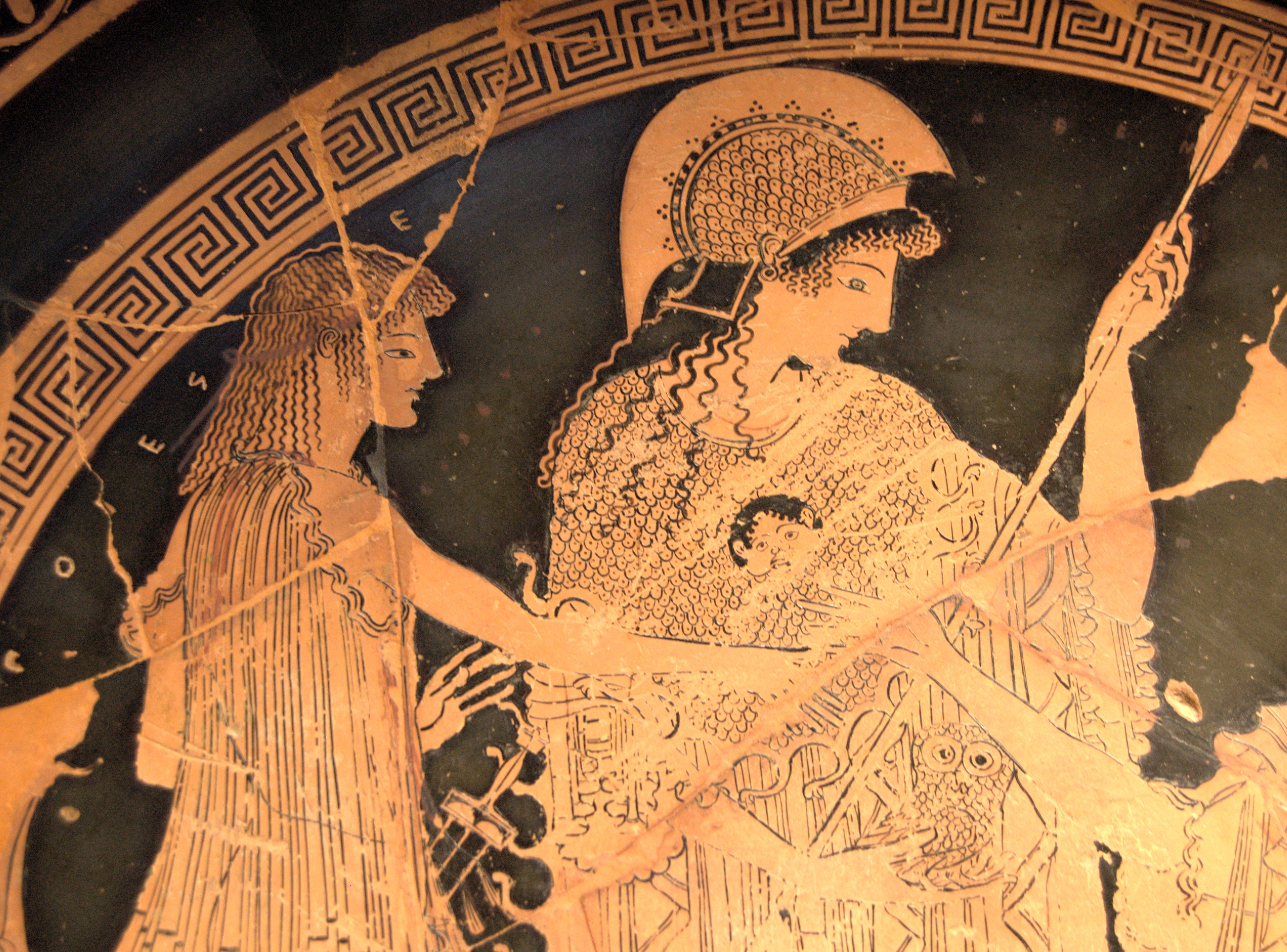 Theseus and Amphitrite with Athena looking on. Interior from an Attic red-figure cup, 500–490 BC. From Cerveteri (ancient Caere), Latium.